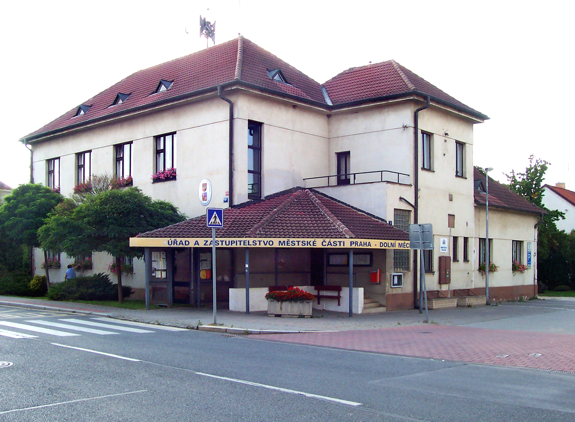 Town Hall at Dolnoměcholupská street in Dolní Měcholupy, Prague